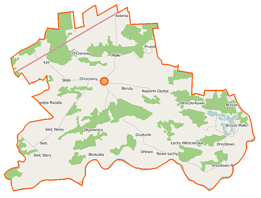 Map of Gmina Rzewnie, Poland This map of Rzewnie (gmina) was created from OpenStreetMap project data, collected by the community. This map may be incomplete, and may contain errors. Don't rely solely on it for navigation. Border coordinates52.880921.2428←↕→21.486252.7687